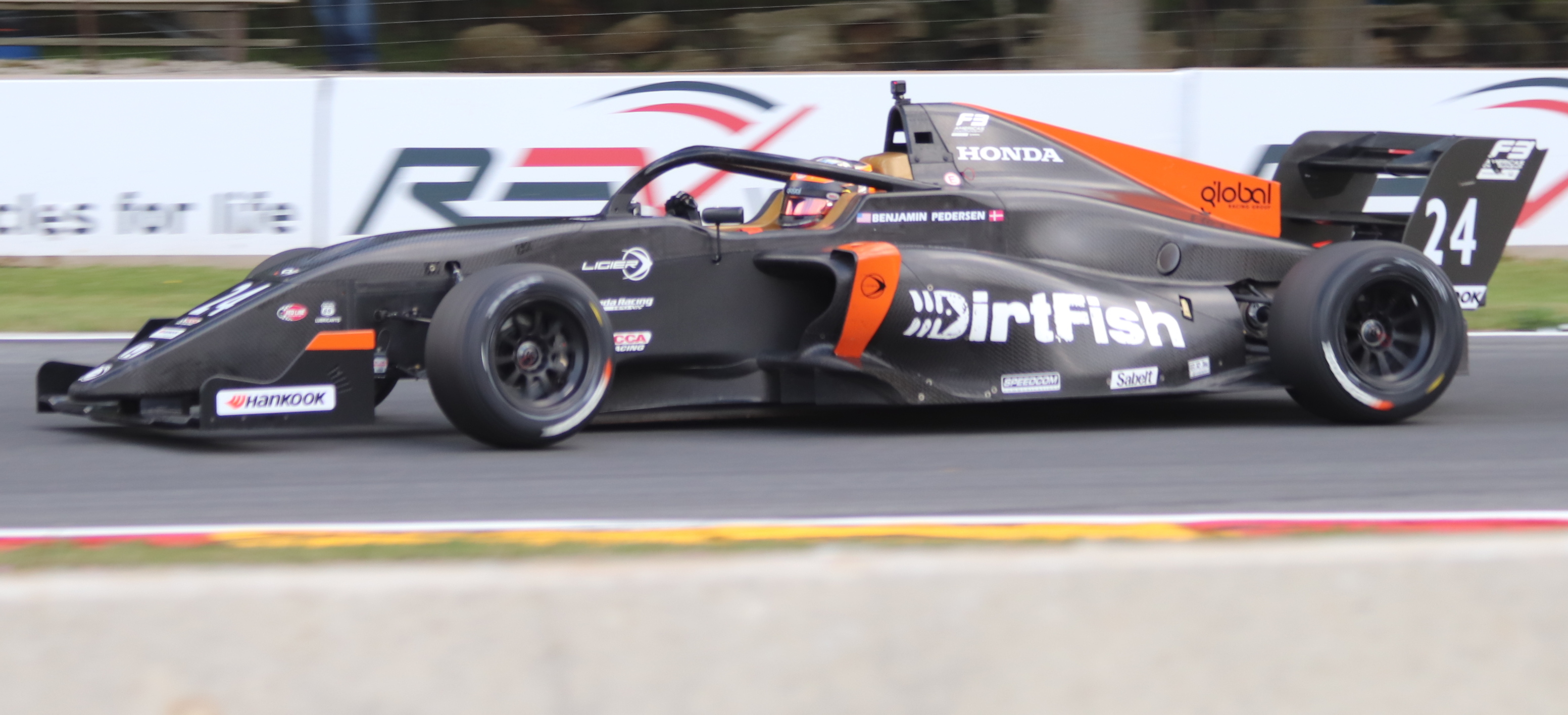 The F3 Americas Championship car of Benjamin Pedersen at Road America. He won the race.